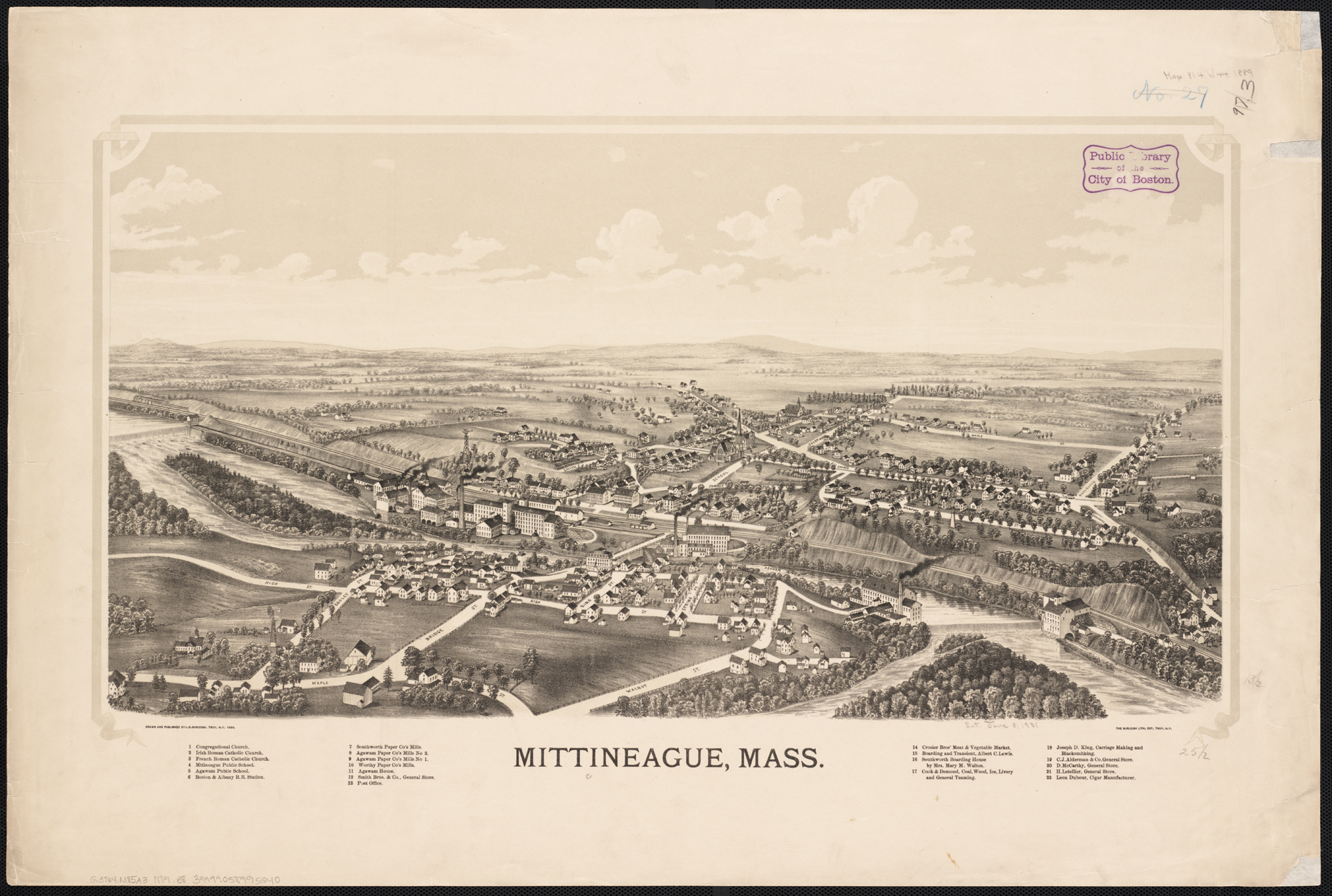 Zoom into this map at . Author: Burleigh, L. R. Publisher: L.R. Burleigh Date: 1889 Location: Mittineague (Mass.) Scale: Not drawn to scale. Call Number: G3764.M85A3 1889.B8